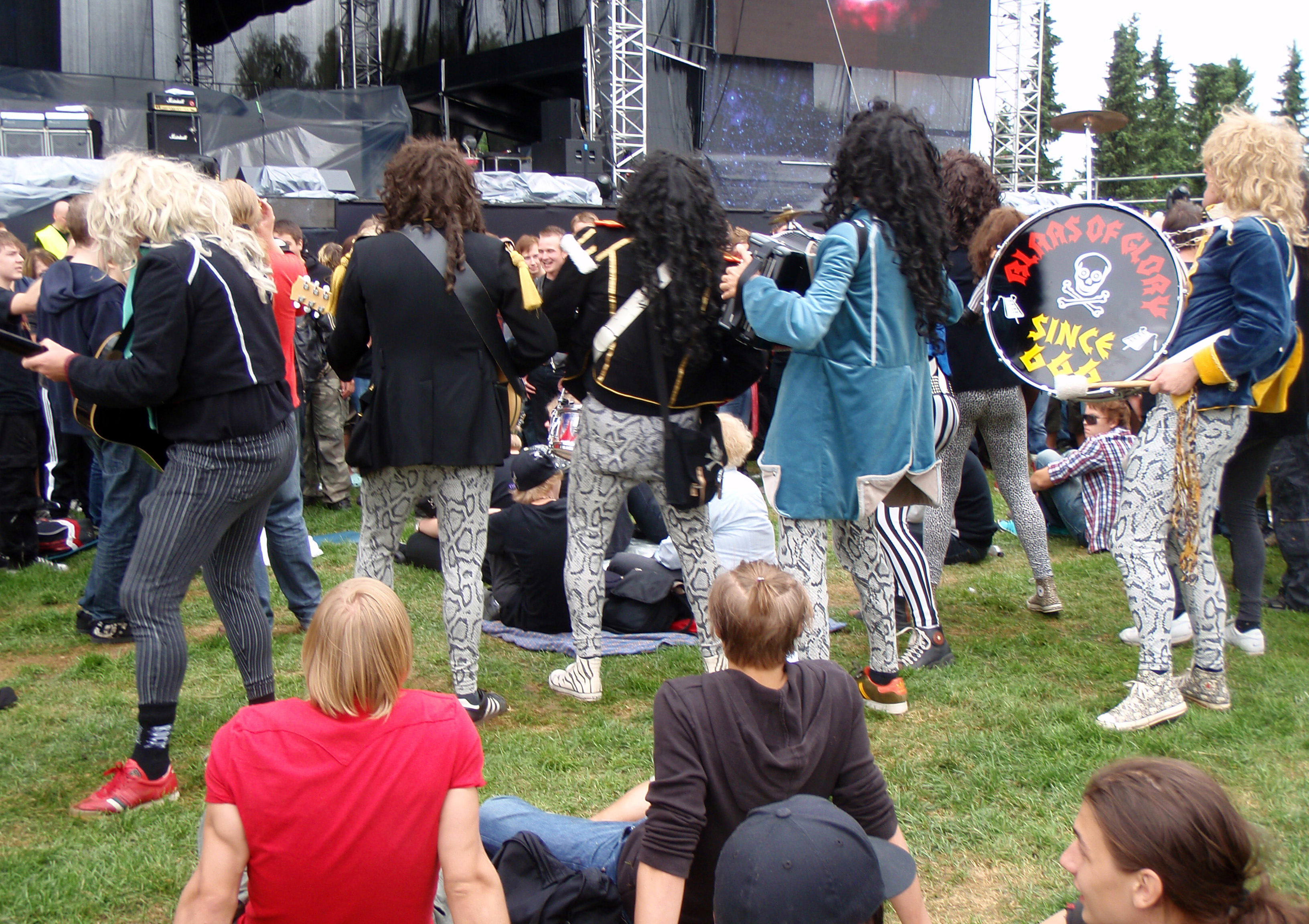 Blaas Of Glory performing at Sonisphere Festival in Kirjurinluoto, Pori, Finland.